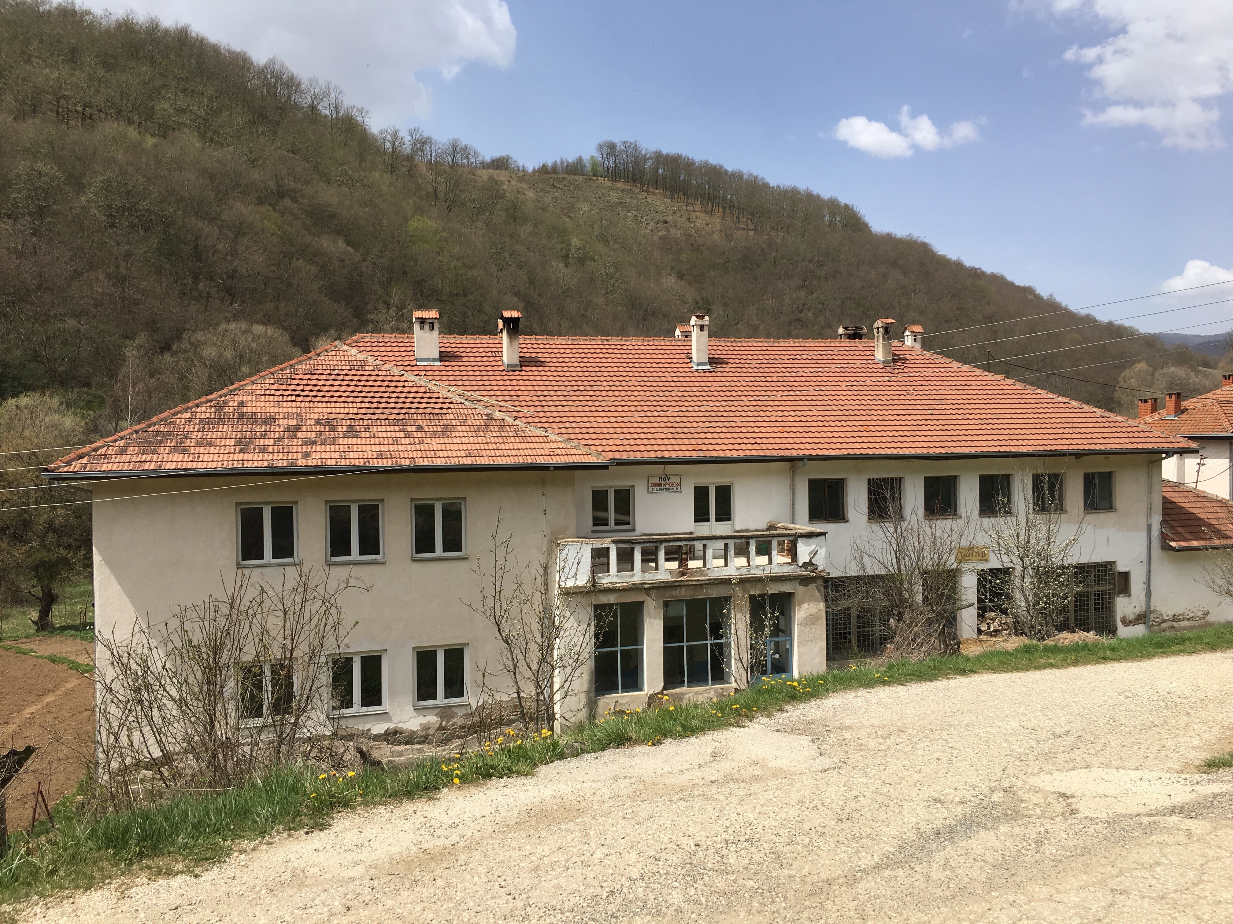 The primary school in the village of Dobrovnica